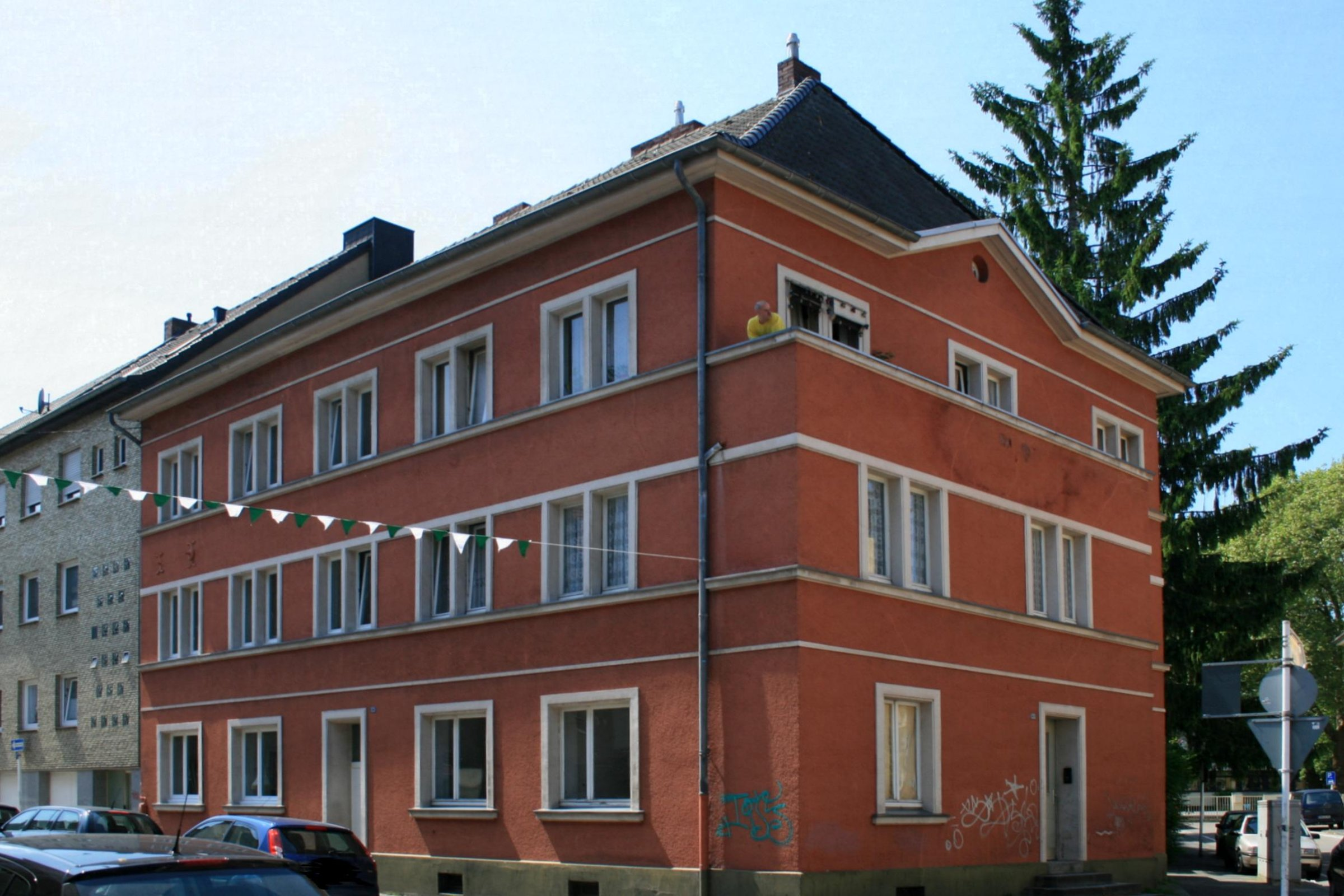 Cultural heritage monument No. R 058 in Mönchengladbach